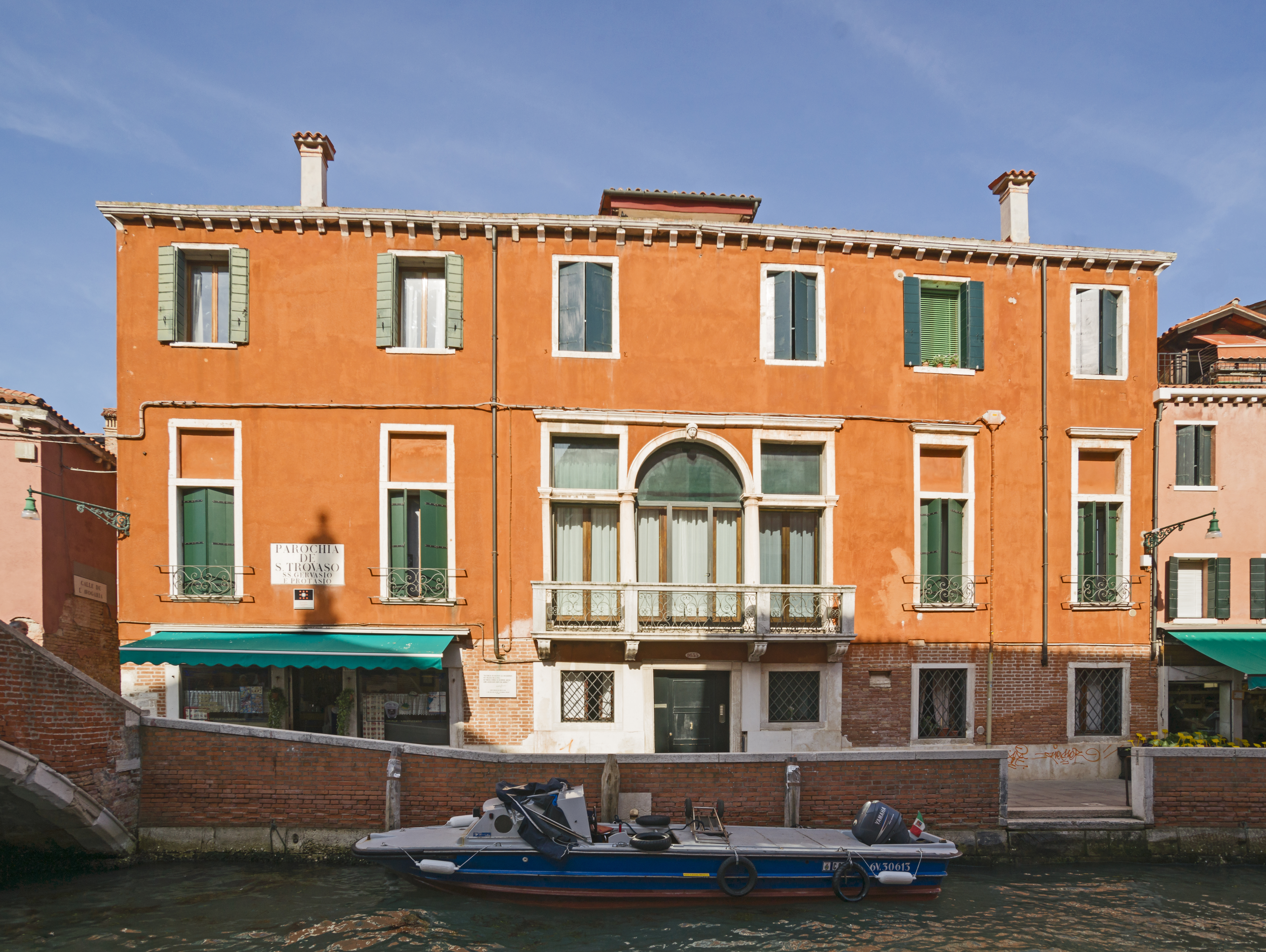 House occupied by Modigliani in 1903 - Facade on rio San Basegio in Venice.